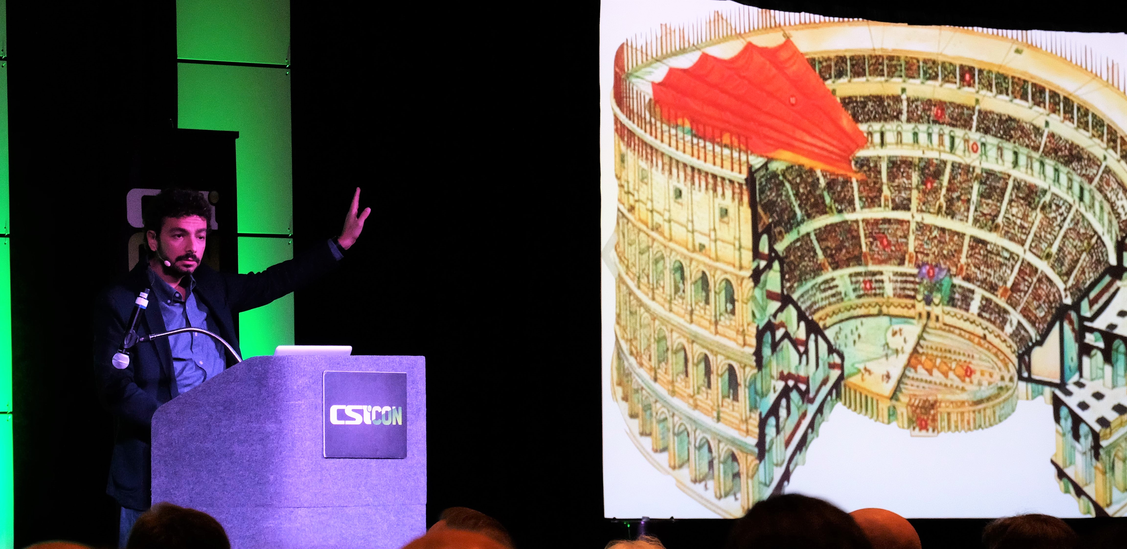 Massimo Polidoro presents his research for his new book, L'avventura del Colosseo, at CSICon 2017.